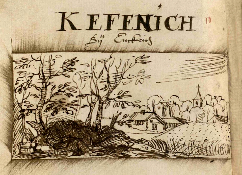 "Kefenich" (today: Kewenich, municipality of Körperich, Eifelkreis Bitburg-Prüm) by Jean Bertels, ~1597